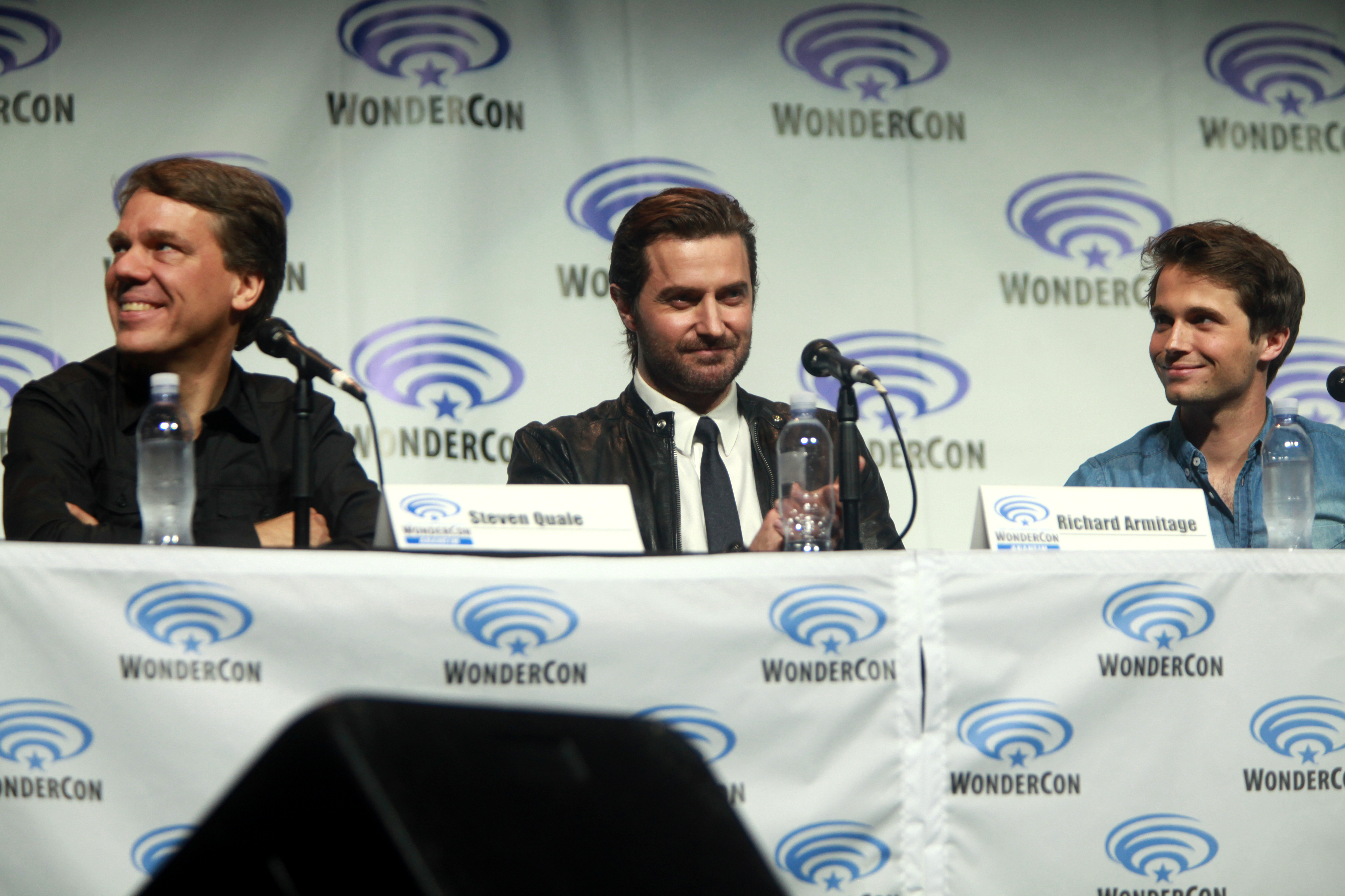 Steven Quale, Richard Armitage and Max Deacon speaking at the 2014 WonderCon, for "Into the Storm", at the Anaheim Convention Center in Anaheim, California.